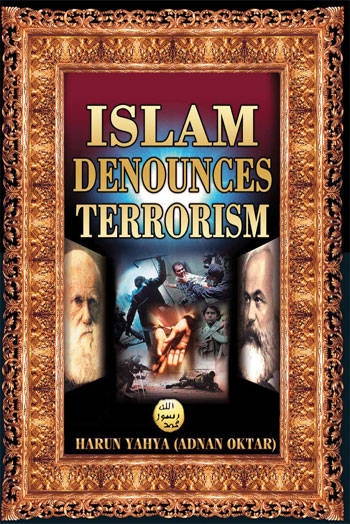 Islam Denounces Terrorism by Adnan Oktar